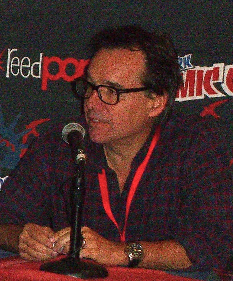 See title